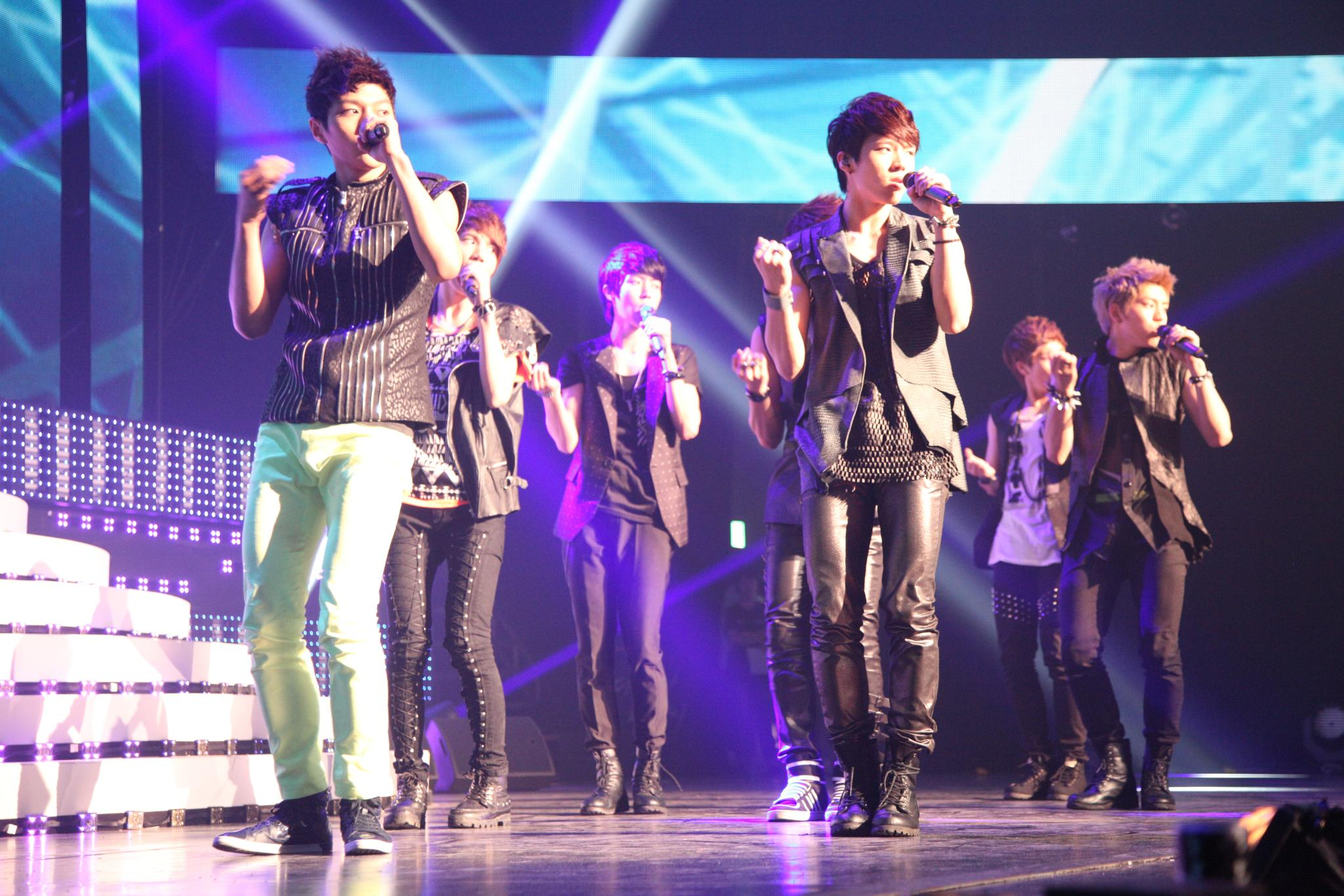 인피니트 @ Cyworld Dream Music Festival 싸이월드 드림 뮤직 페스티벌_1